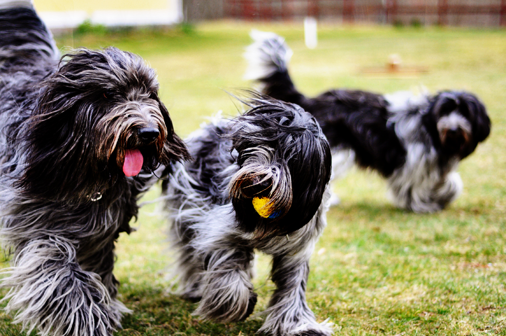 All three are schapendoes